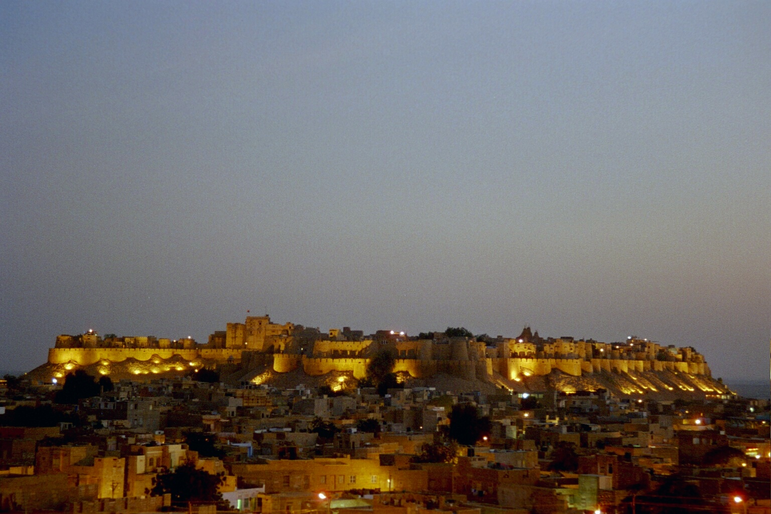 Old town / Fort of Jaisalmer, Rajasthan, India